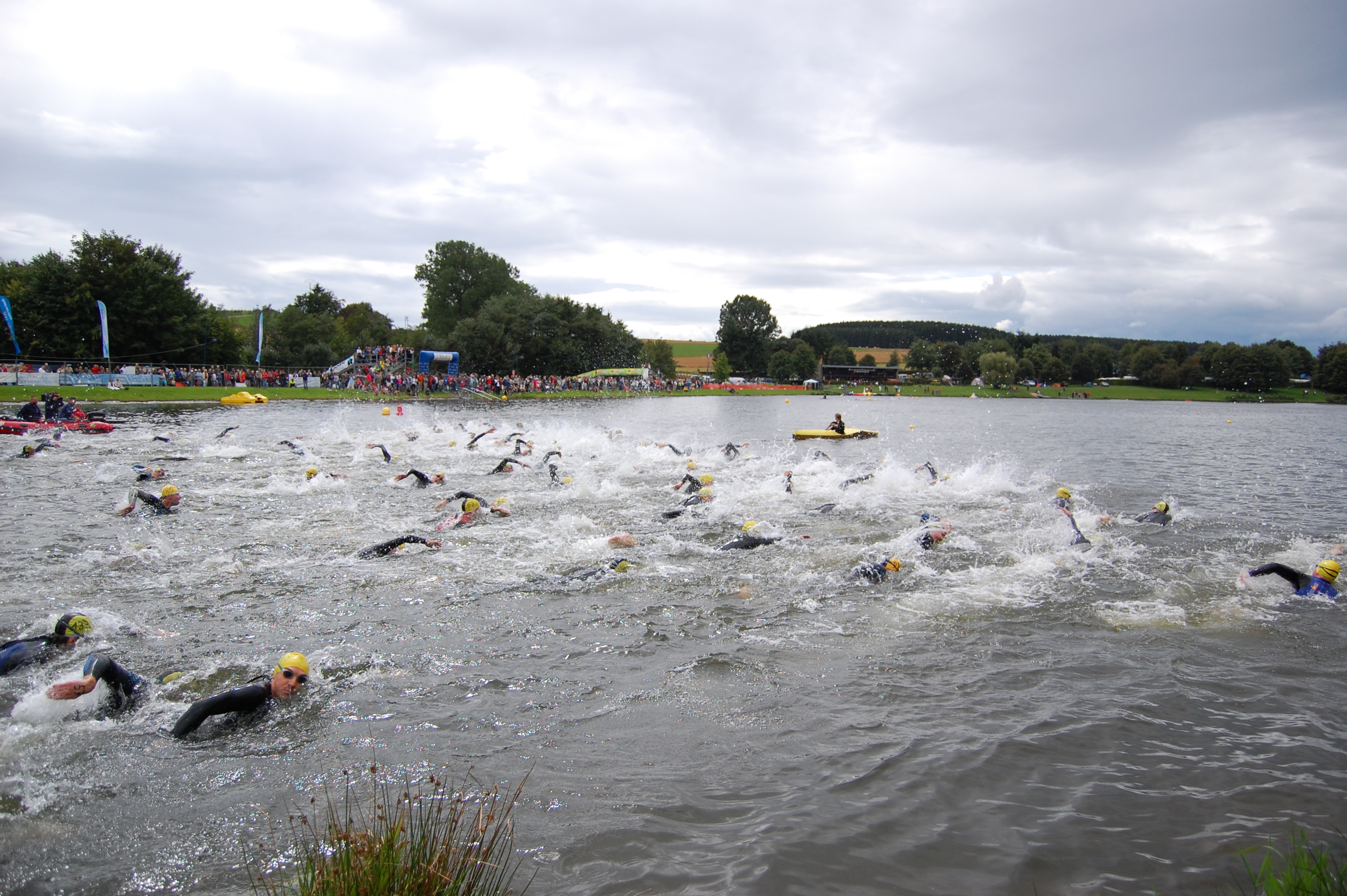 Start of the 2007 International Weiswampach Triathlon, Men.